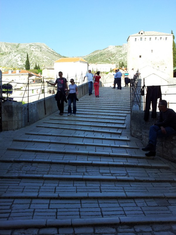 Stairs on the The Old Bridge in Mostar